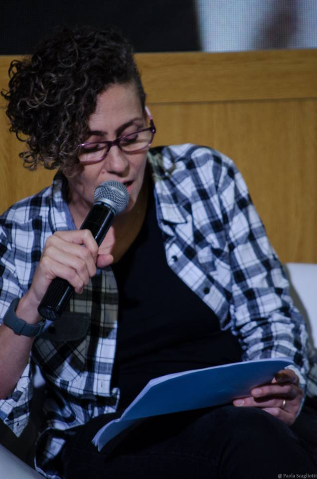 Claudia Magliano. Lectura de poesía.